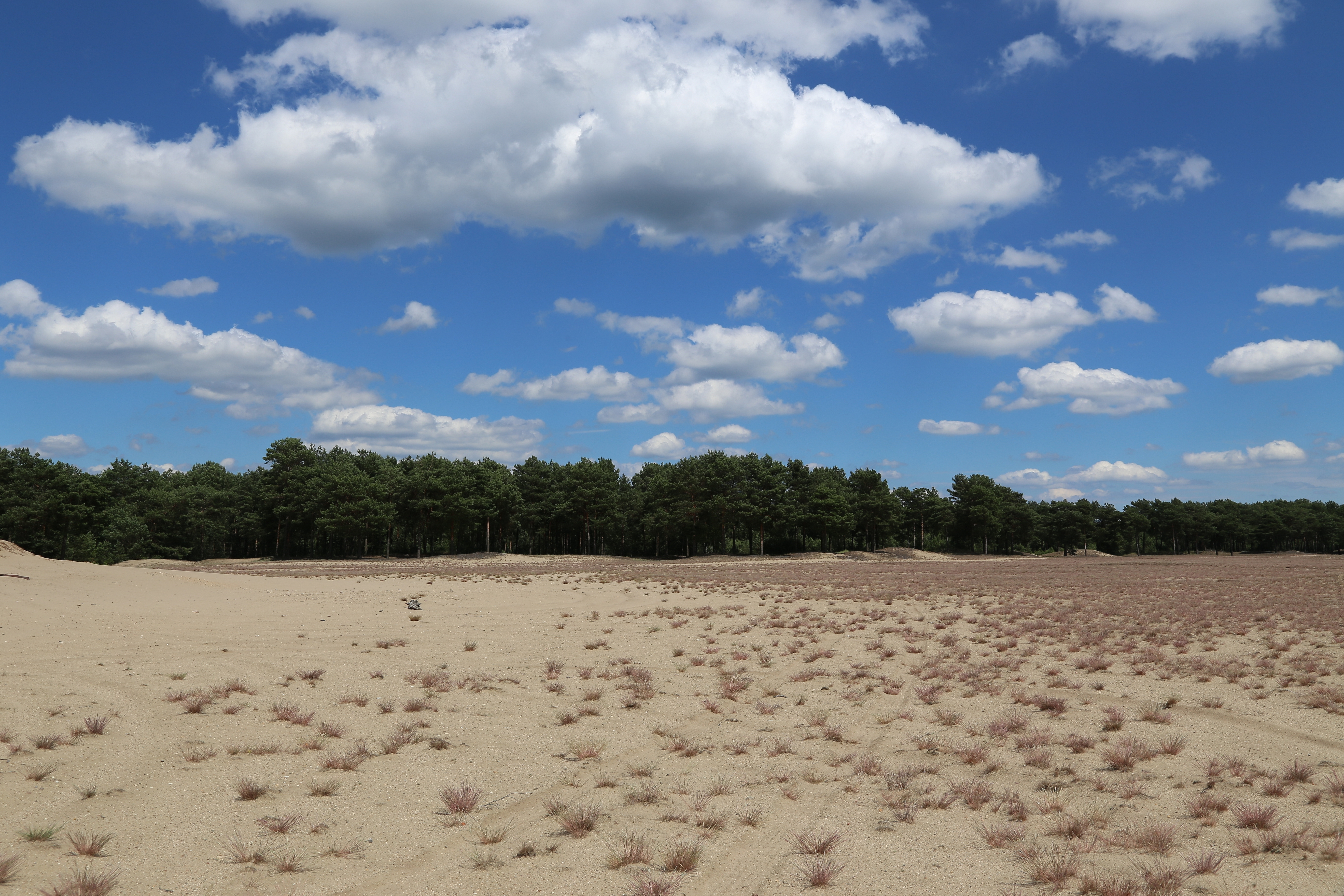 Lieberose Desert (Lieberoser Wüste) in the Lieberoser Heide near Lieberose, Landkreis Dahme-Spreewald, Brandenburg, Germany. It is Germany's largest desert. (Photo taken on a guided tour.)